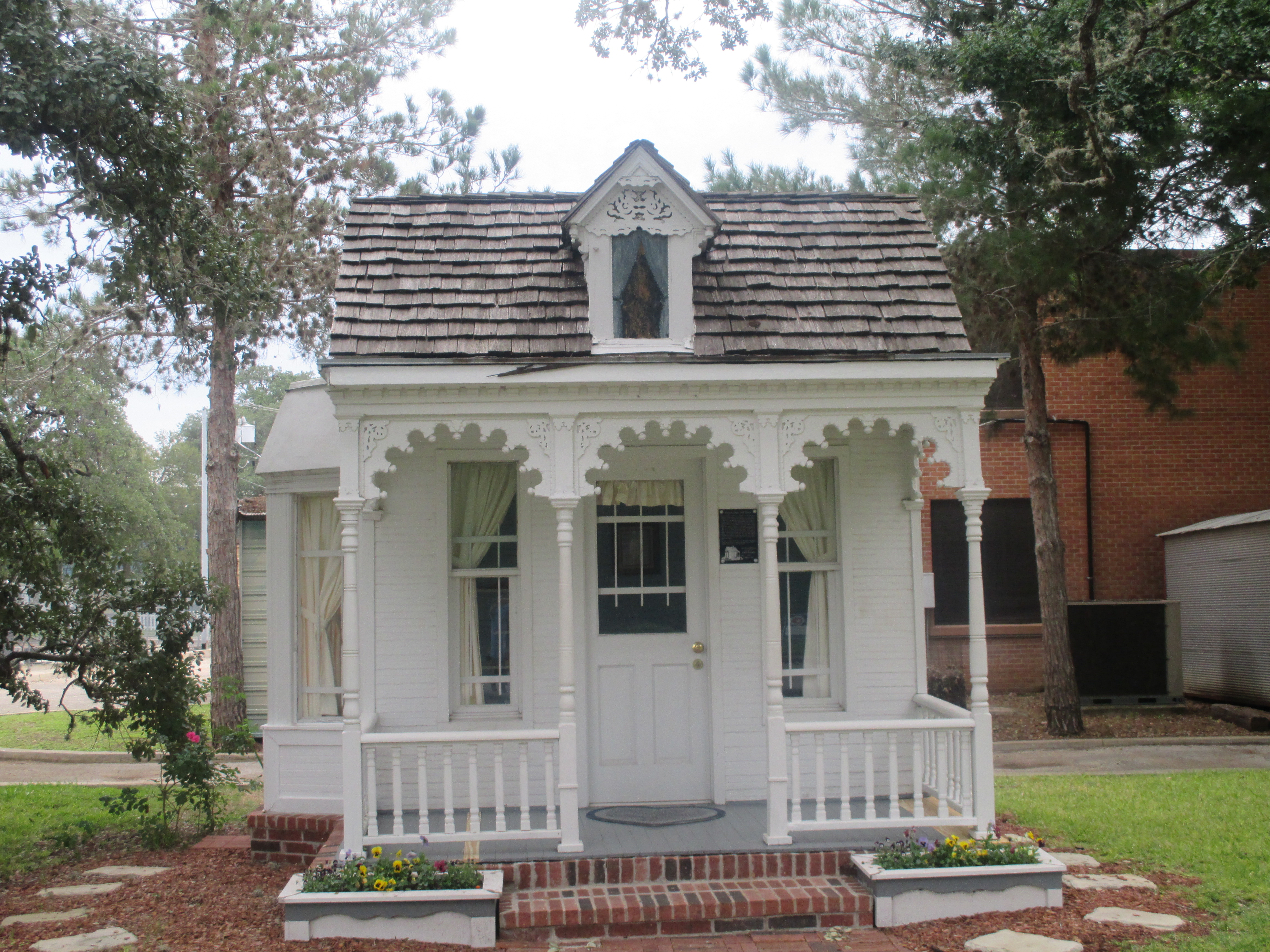 I took photo with Canon camera of Dietz-Castilla Doll House in Seguin, TX.